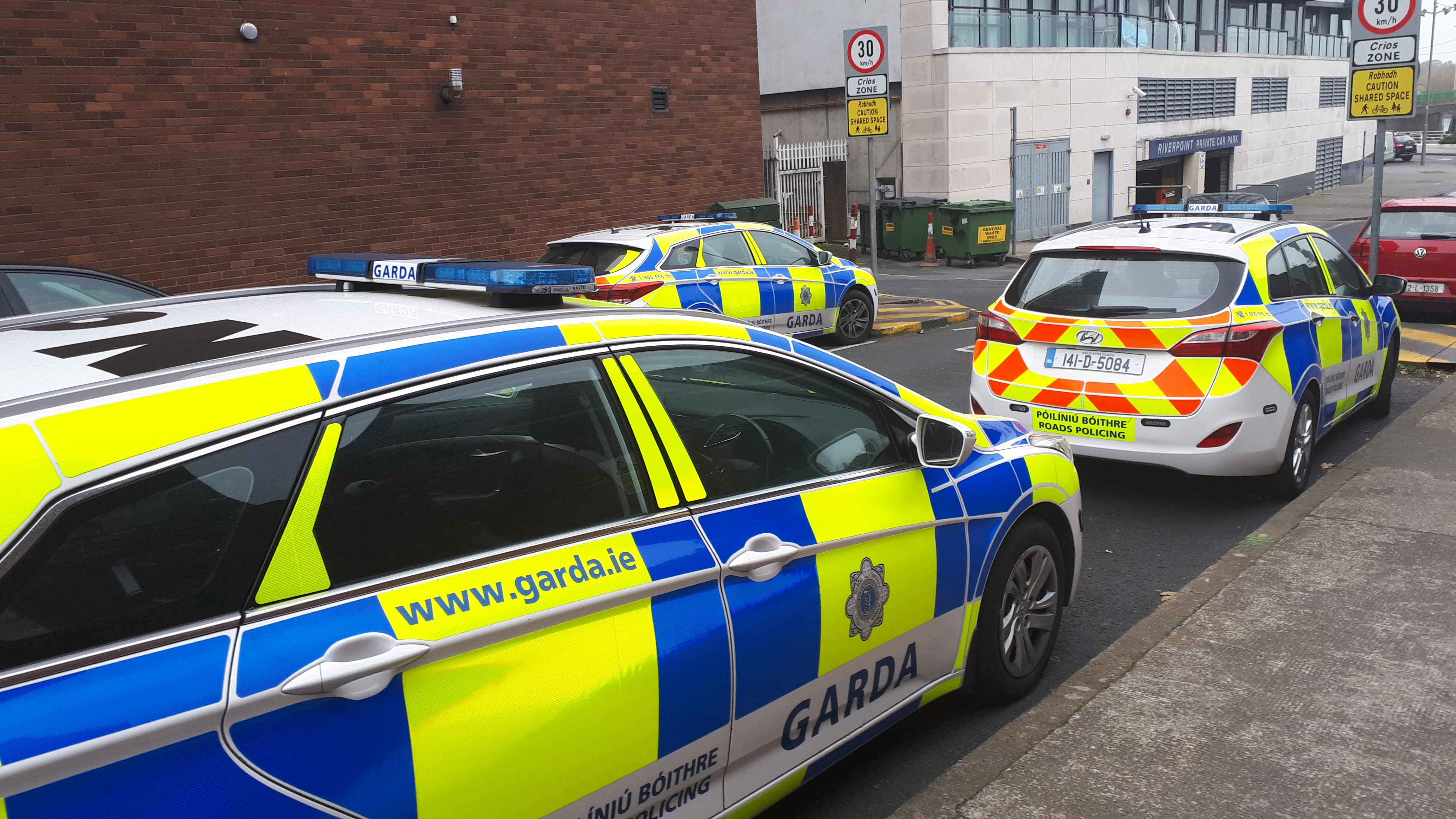 Garda sqaud cars